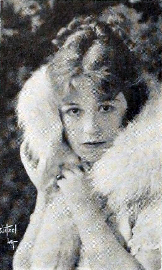 Advertisement in The Moving Picture World with Ethel Teare.